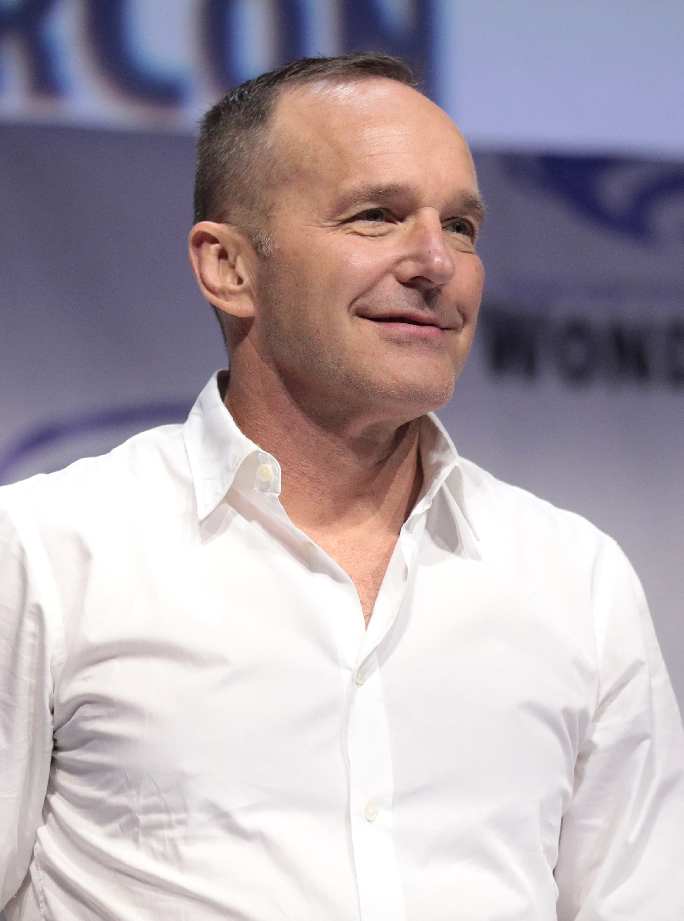 Clark Gregg at the 2019 WonderCon in Anaheim, California.